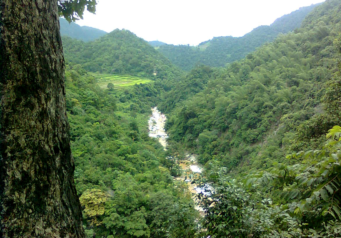 View of Gosthani River Valley at Borra Caves in Visakhapatnam District